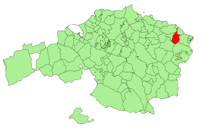 Amoroto municipality in the province of Biscay